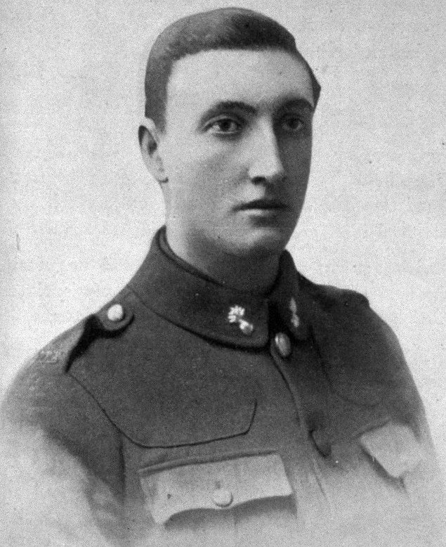 Samuel Forsyth. New Zealand. Department of Internal Affairs. War History Branch :Photographs relating to World War 1914-1918, World War 1939-1945, occupation of Japan, Korean War, and Malayan Emergency. Ref: 1/2-031678-F. Alexander Turnbull Library, Wellington, New Zealand.